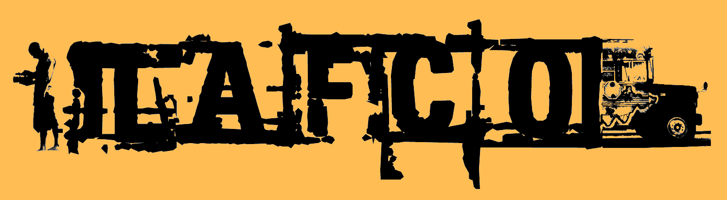 lafco bus graphic